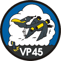 Insignia of the United States Navy Patrol Squadron 45 (VP-45), approved on 4 February 1949.